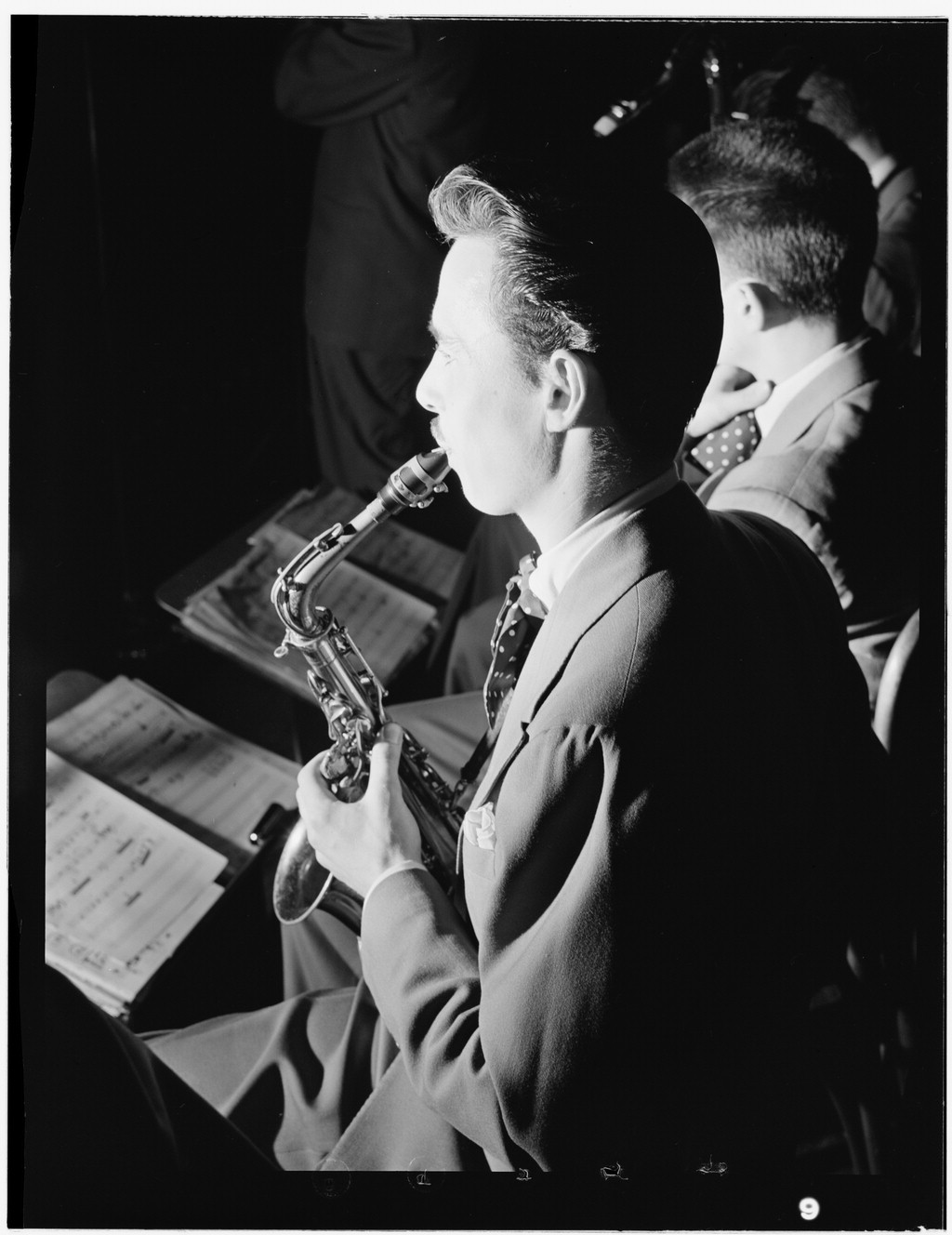 Portrait of George William Weidler, 1947 or 1948. He was an American musician and songwriter. He was the second husband of actress-singer Doris Day (married 1946-49). He was also the brother of former child actress Virginia Weidler. By Gottlieb, William P., 1917-, photographer. 1 negative : b&w ; 3 1/4 x 4 1/4 in. Notes: Gottlieb Collection Assignment No. 176 Purchase William P. Gottlieb Forms part of: William P. Gottlieb Collection (Library of Congress). Subjects: Weidler, George Stan Kenton Orchestra Jazz musicians--1940-1950. Saxophonists--1940-1950. Format: Portrait photographs--1940-1950. Group portraits--1940-1950. Film negatives--1940-1950. Rights Info: Mr. Gottlieb has dedicated these works to the public domain, but rights of privacy and publicity may apply. Repository: (negative) Library of Congress, Prints & Photographs Division, Washington D.C. 20540 USA, Part Of: William P. Gottlieb Collection (DLC) 99-401005 General information about the Gottlieb Collection is available at Persistent URL: Call Number: LC-GLB23- 1612 This work is from the William P. Gottlieb collection at the Library of Congress. Rights and restrictions.In accordance with the wishes of William Gottlieb, the photographs in this collection entered into the public domain on February 16, 2010.